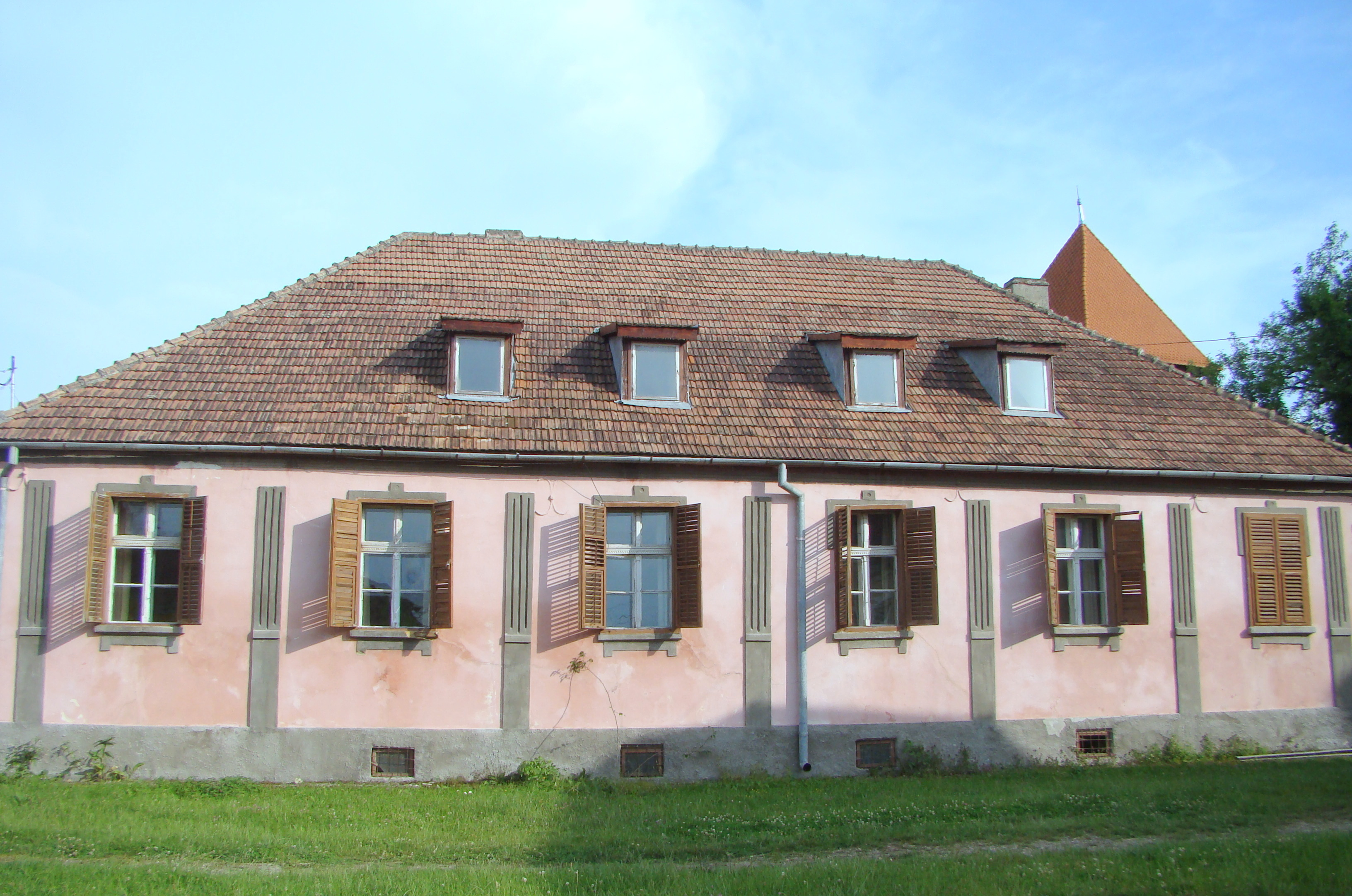 Fortified church in Cața, Braşov County, Romania